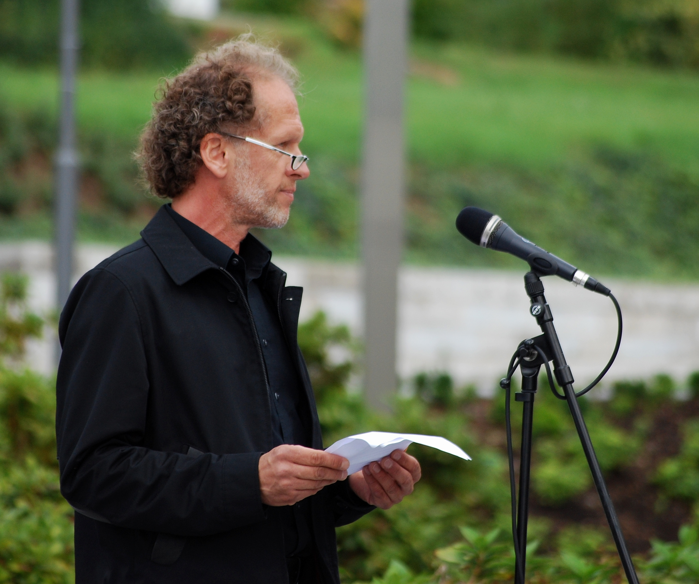 The German artist and sculptor Dieter Kränzlein (* 1962) during his speech at the opening ceremony of his sculpture in the center of the new traffic circle in Neckarwestheim, Baden-Württemberg, on 15th September 2013.